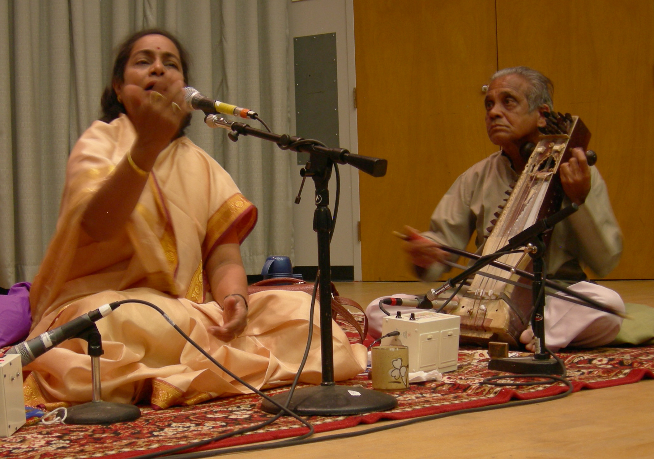 Hindustani vocalist Shruti Sadolikar Katkar accompanied by Anant Kunte playing the sarangi, in a concert in the Ragamala series, Brechemin Auditorium, Music building, University of Washington, Seattle, Washington. Image has been somewhat retouched, but nothing major.